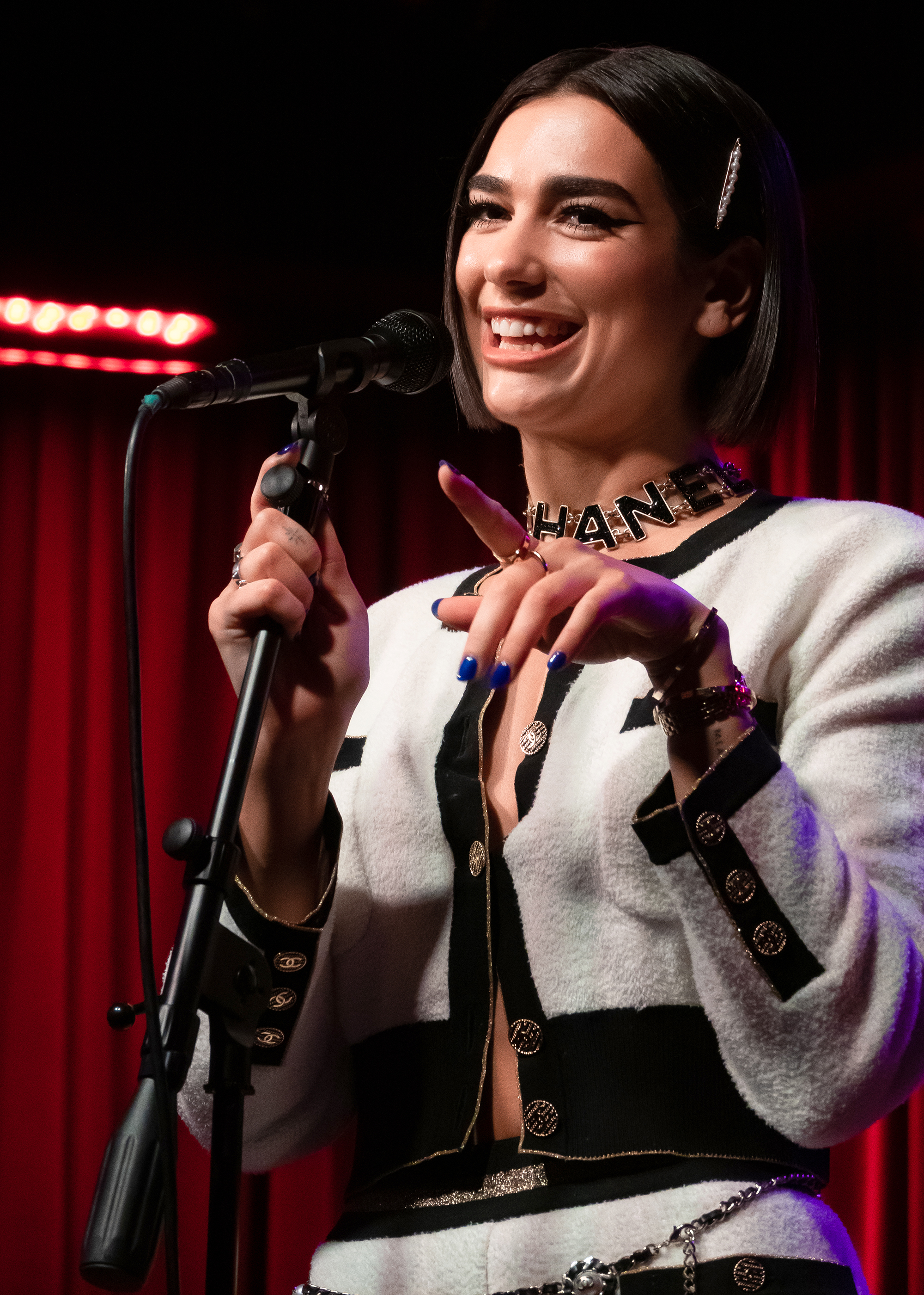 Dua Lipa interview and live performance at the Grammy Museum in Los Angeles, California, on Friday, September 28, 2018.